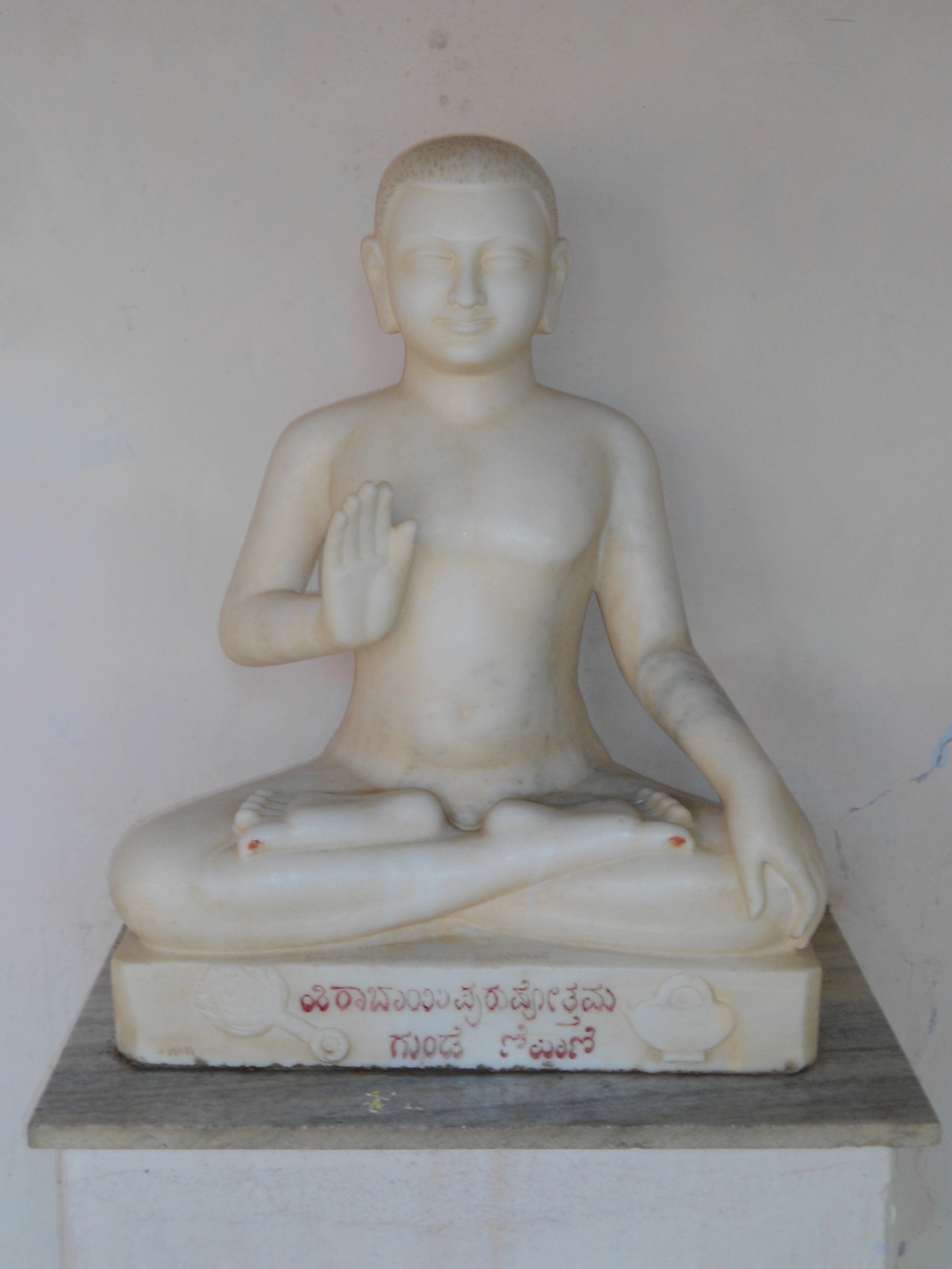 Sculpture depicting digambar muni (acarya)